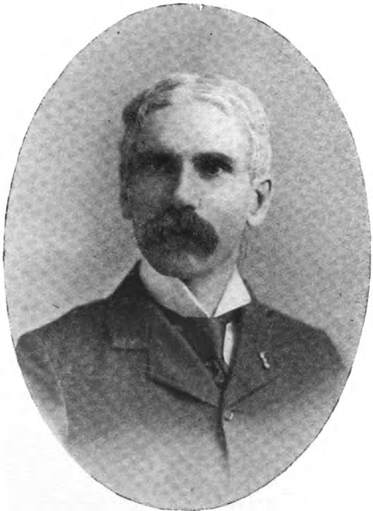 Isaac Gause , Medal of Honor recipient from circa 1908 photo.